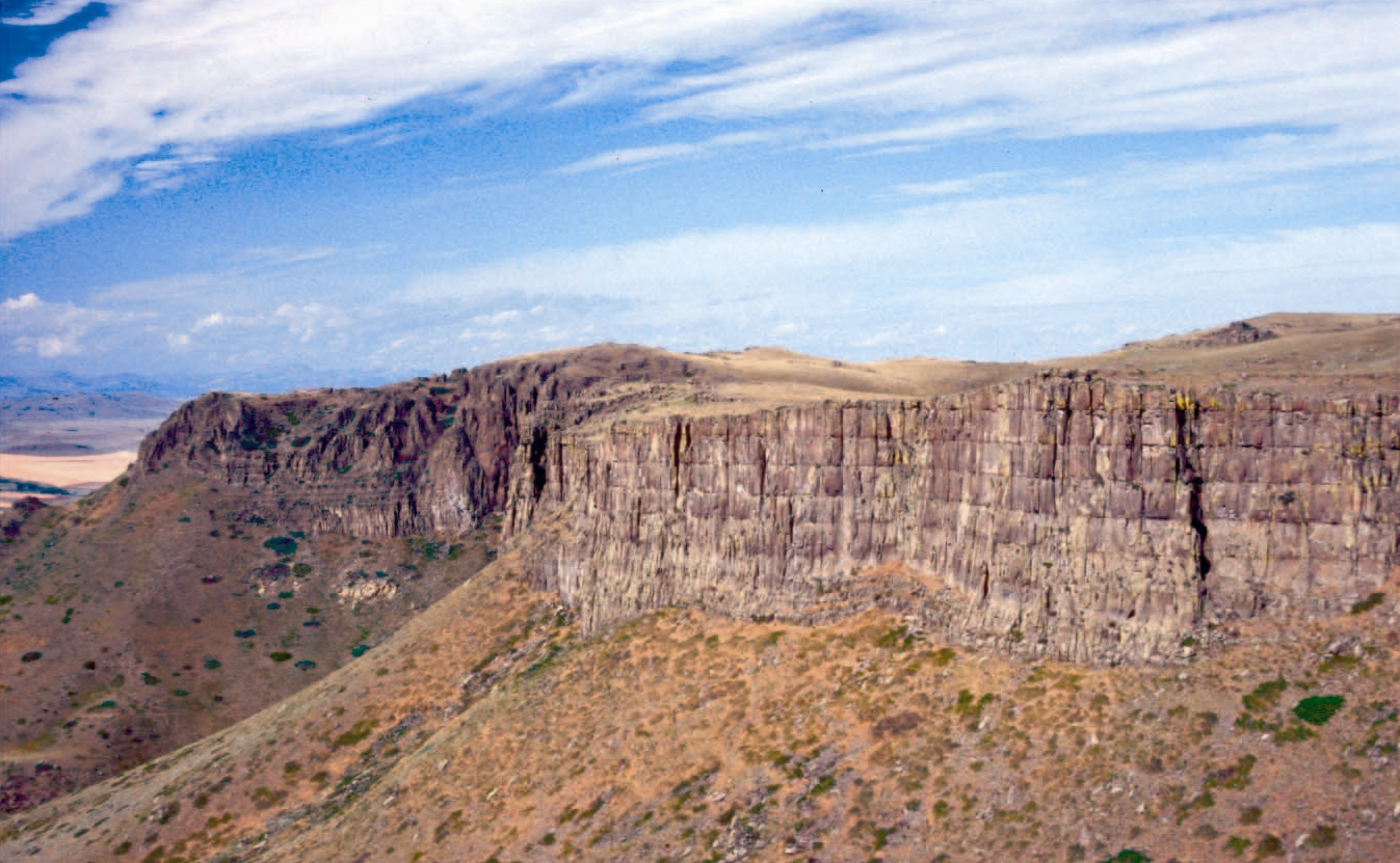 Northwest view of Square Butte, a laccolith in the Adel Mountains Volcanic Field in west-central Montana. From: Stephen S. Harlan, Lawrence W. Snee, Mitchell W. Reynolds, Harald H. Mehnert, R.G. Schmidt, Steve D. Sheriff, and Anthony J. Irving. "40Ar/39Ar and K-Ar Geochronology and Tectonic Significance of the Upper Cretaceous Adel Mountain Volcanics and Spatially Associated Tertiary Igneous Rocks, Northwestern Montana." Professional Paper 1696. U.S. Department of the Interior, U.S. Geological Survey. Reston, Virginia: 2005